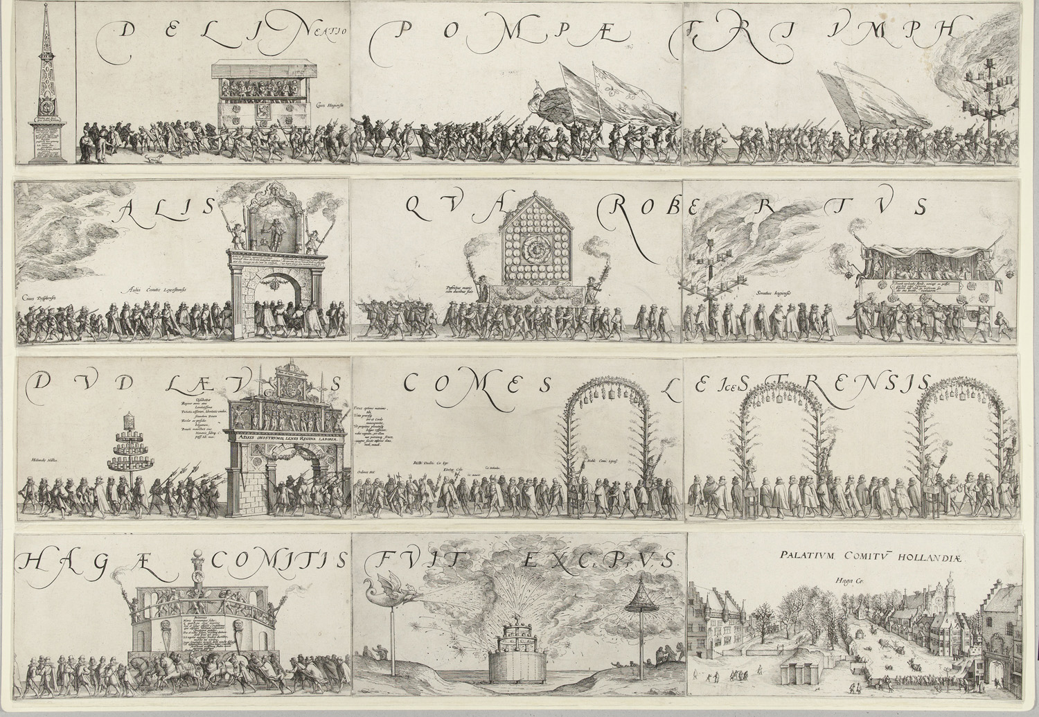 parade of Leicester te Den Haag, 1586